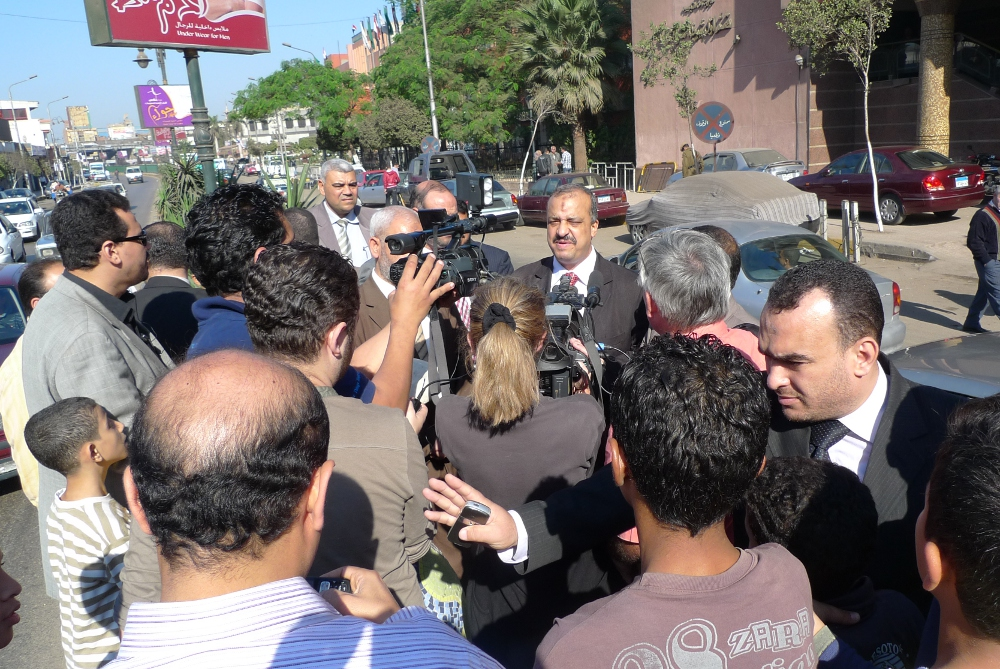 Mohamed el-Beltagy, a Muslim Brotherhood member running for the lower house of parliament as an independent, stops to give an impromptu speech in the median dividing the main road of his neighborhood in Cairo, Shobra el-Khaima. Beltagy was on the way to the local police station two days before the election to complain that his campaign workers had, unlike other campaigns, been denied permission to monitor the vote. [Evan Hill]